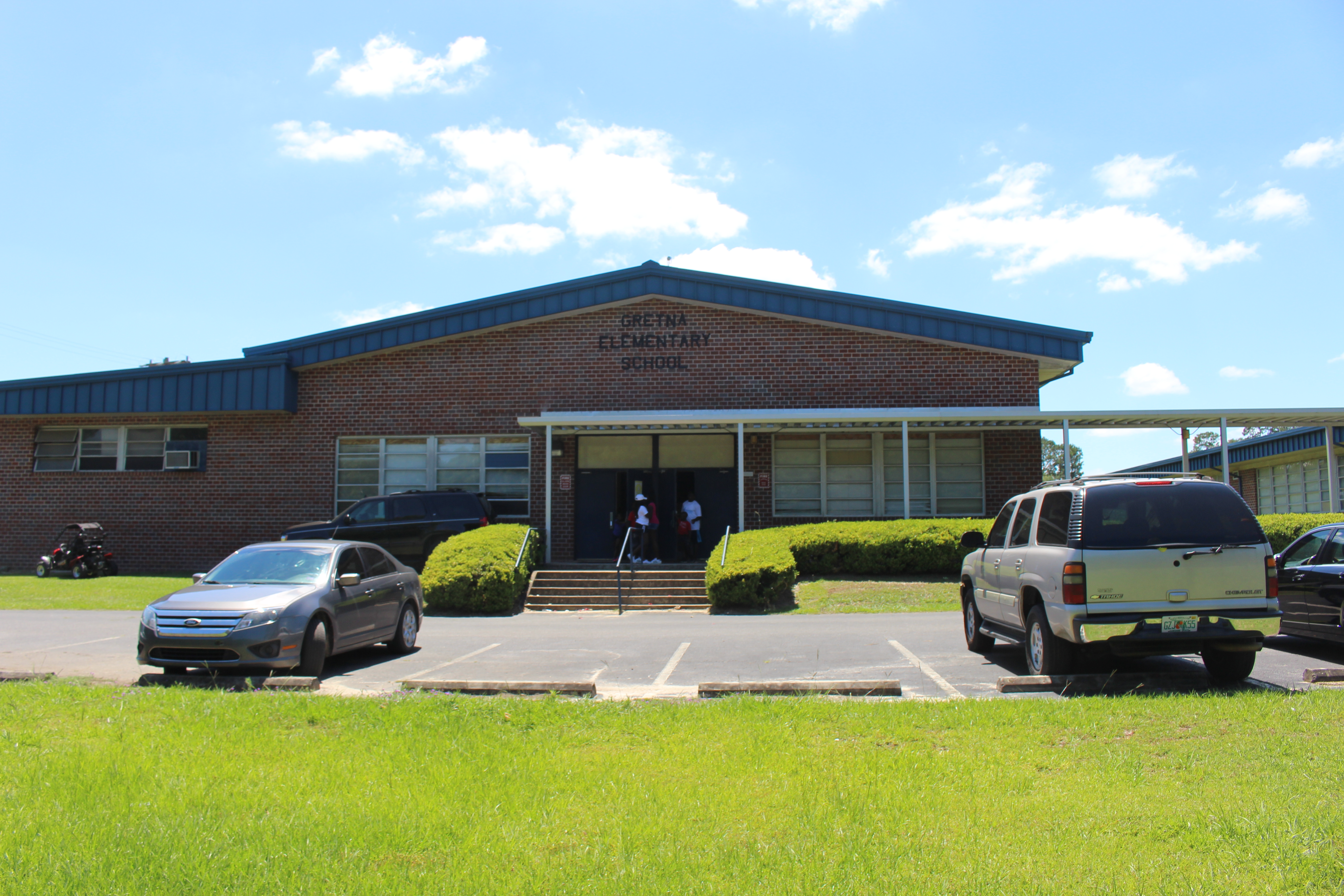 Gretna Elementary School - Gretna, Gadsden County, Florida